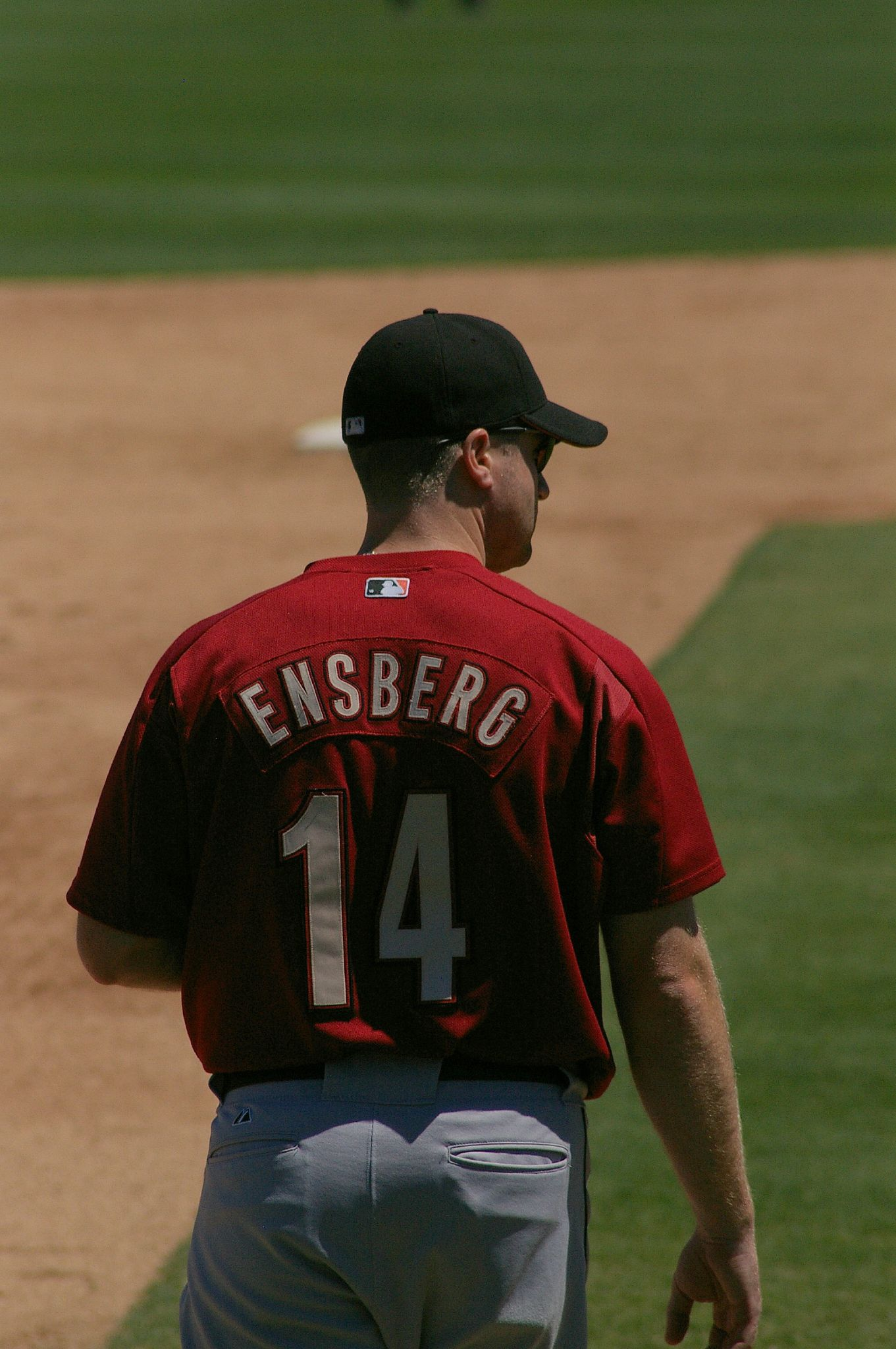 Morgan Ensberg of the Houston Astros.